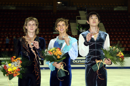 The men's at the 2008 World Junior Championships. From left: Artem Borodulin (2nd), Adam Rippon (1st), Guan Jinlin (3rd)